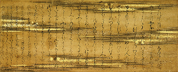 The Murasaki Shikibu Diary Emaki (紙本著色紫式部日記絵巻, shihonchoshoku Murasaki Shikibu nikki emaki). This is part of the handscroll located at the Gotoh Museum in Tokyo which consists of three illustrations and three pages of text. Color on paper. The scroll has been designated as National Treasure of Japan in the category paintings. 21.0cm x 51.4cm.